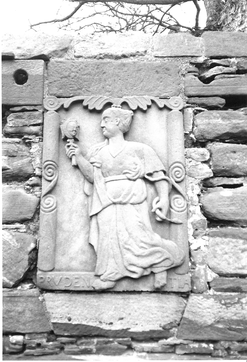 Edzell Castle, Angus, Scotland. Emblem of Prudence, from the series of seven Cardinal Virtues in the garden.